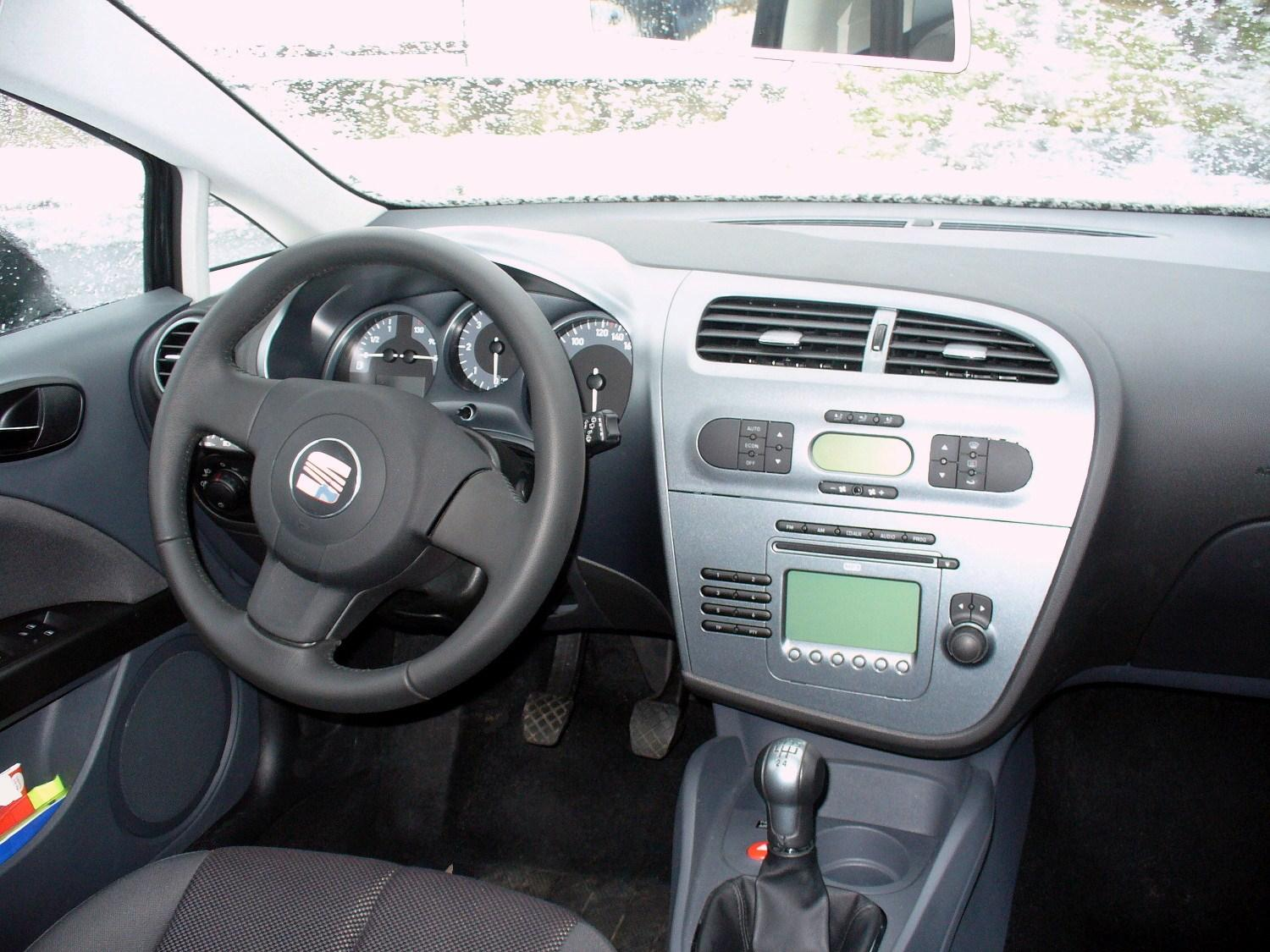 Seat Leon 1P